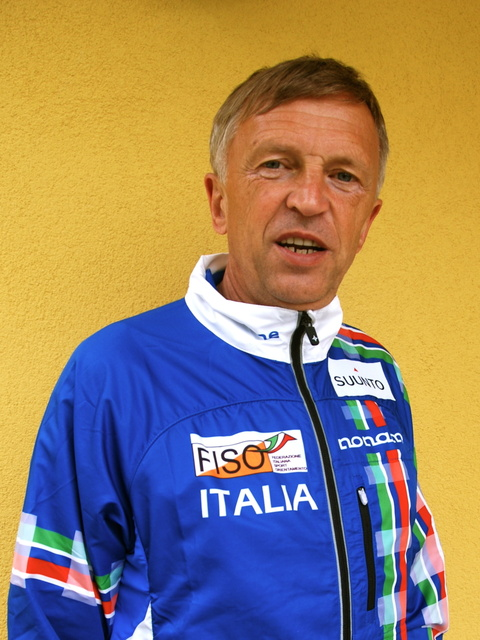 Picture of Jaroslav Kačmarčík the FISO (Italian Orienteering Federation) coach